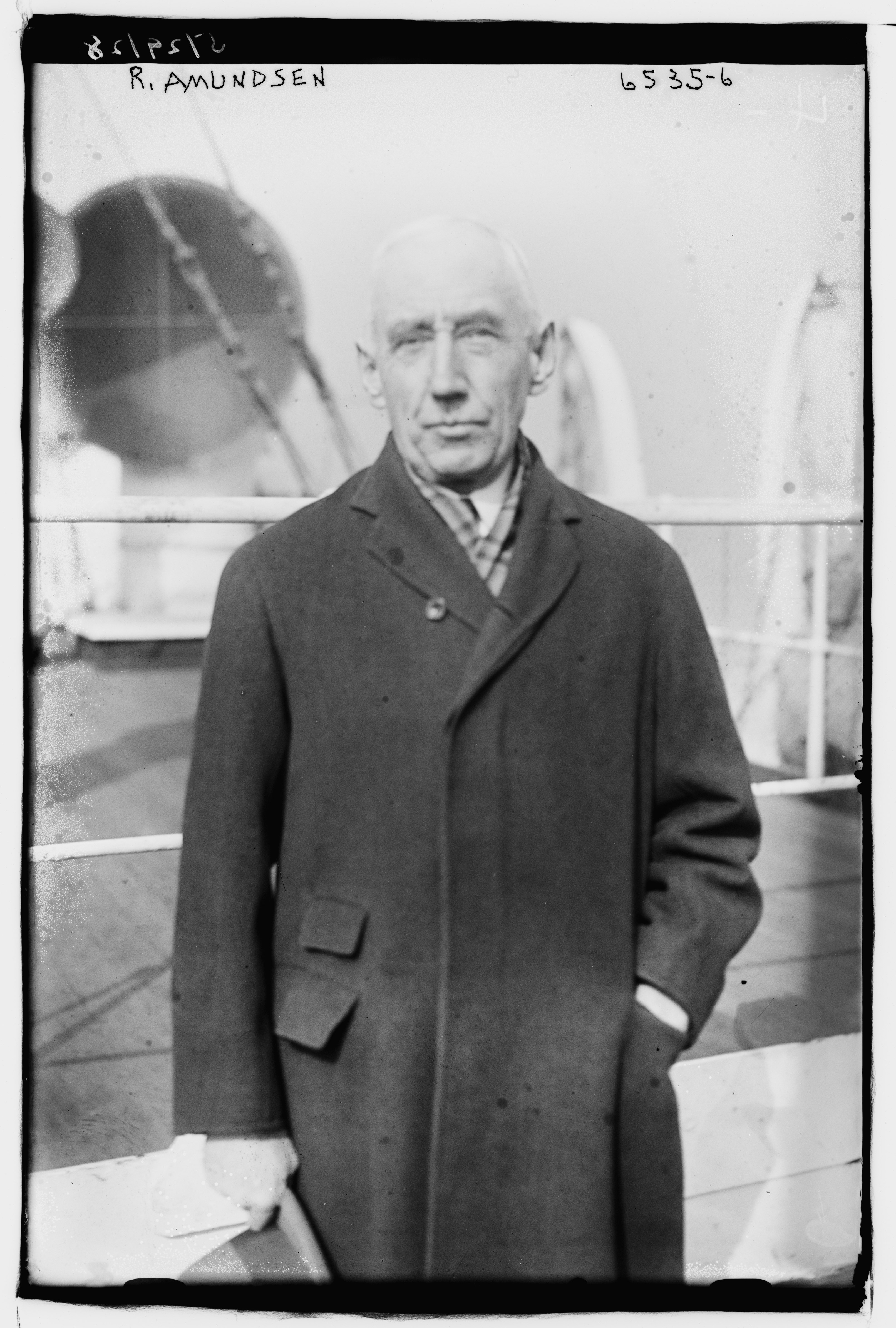 Title: R. Amundsen Abstract/medium: 1 negative : glass ; 5 x 7 in. or smaller.